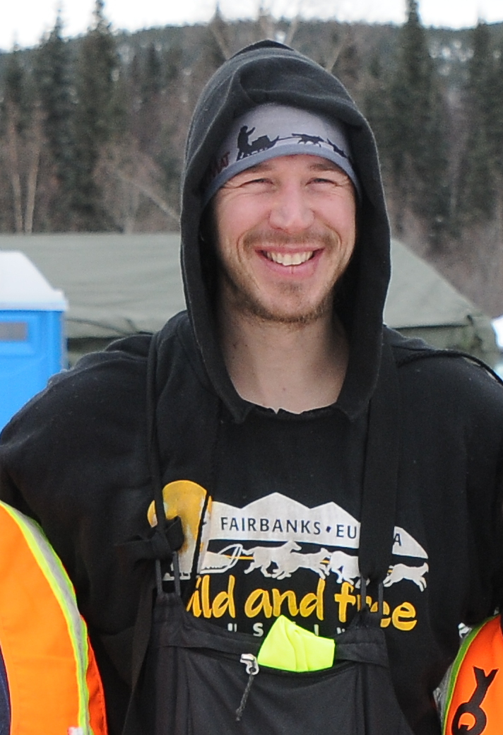 Brent Sass, cropped version of File:Yukon Quest 2015 (16385383350).jpg